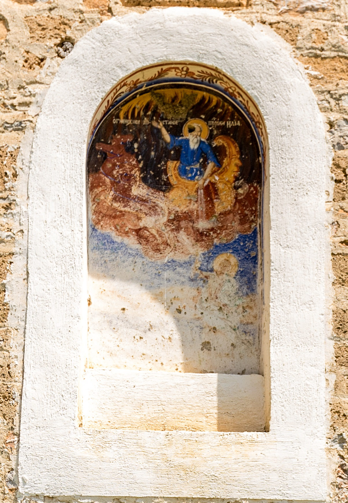 The main church in the village Selce